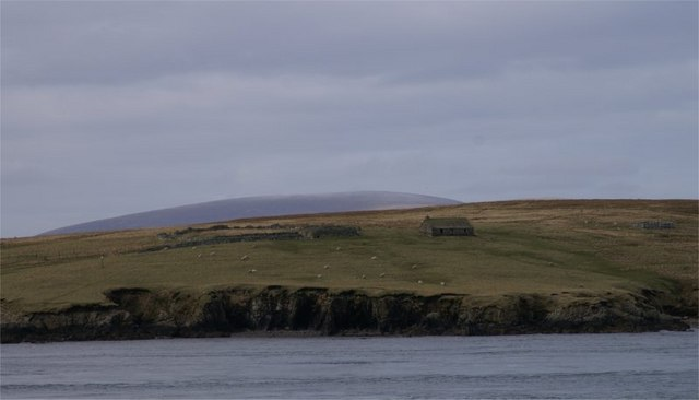 South of Bigga with Shetland Mainland (Ronas Hill) in the background, Shetland, Scotland.